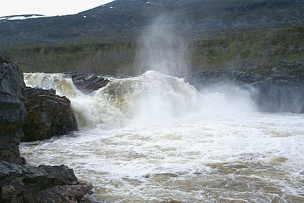 Stabbursfossen waterfall in Stabbursdalen national park, Finnmark, Norway.